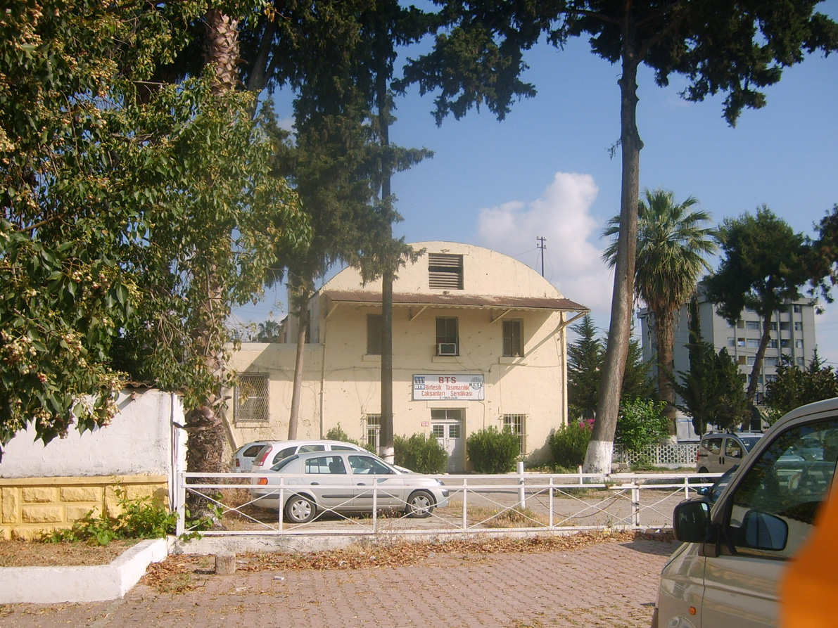 The old Mersin Railway Station